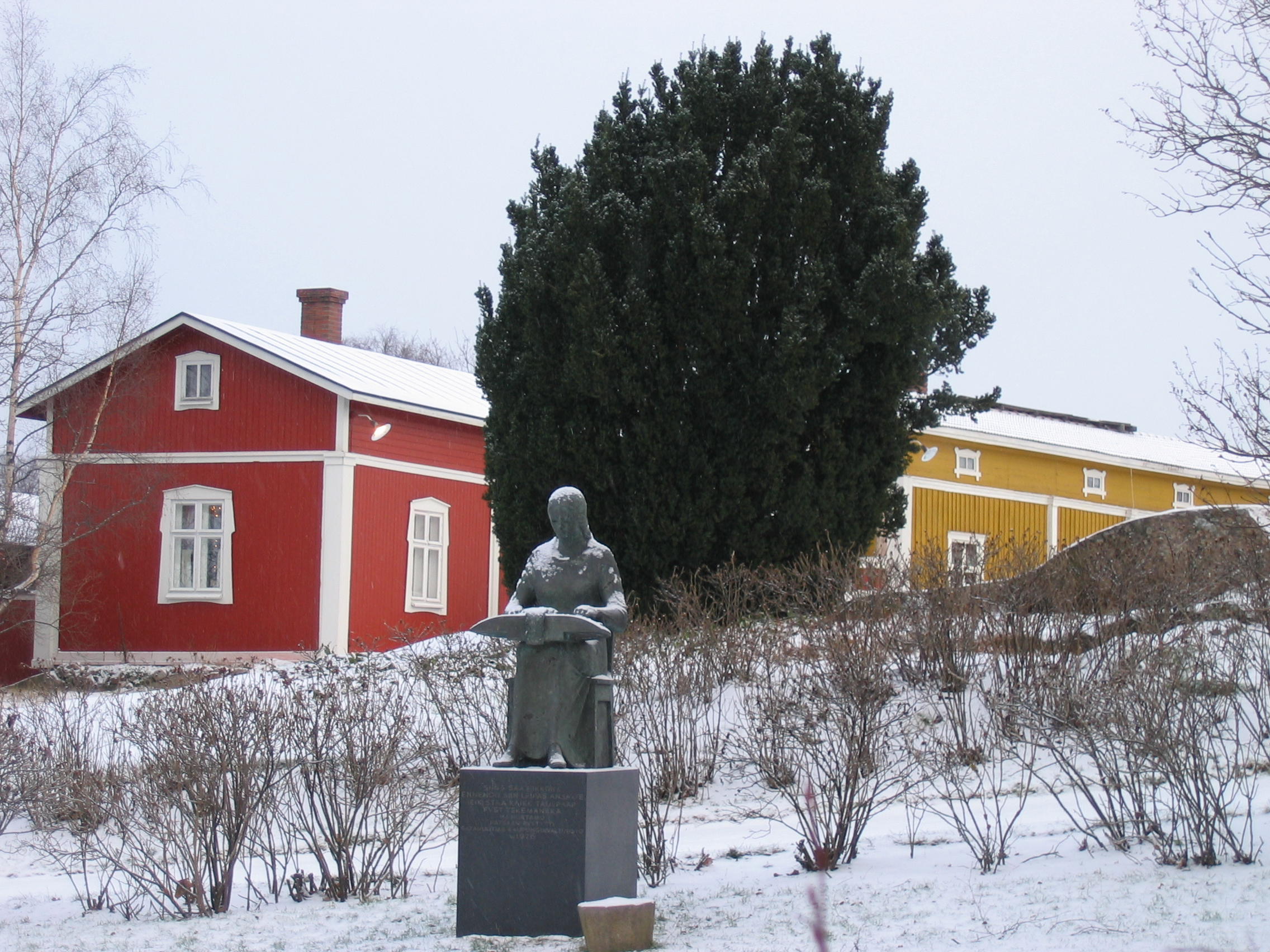 Helsingintori (Helsinki Square) in Wikipedia:Rauma, Finland. Typical Wikipedia:Old Rauma houses and a large Juniper.